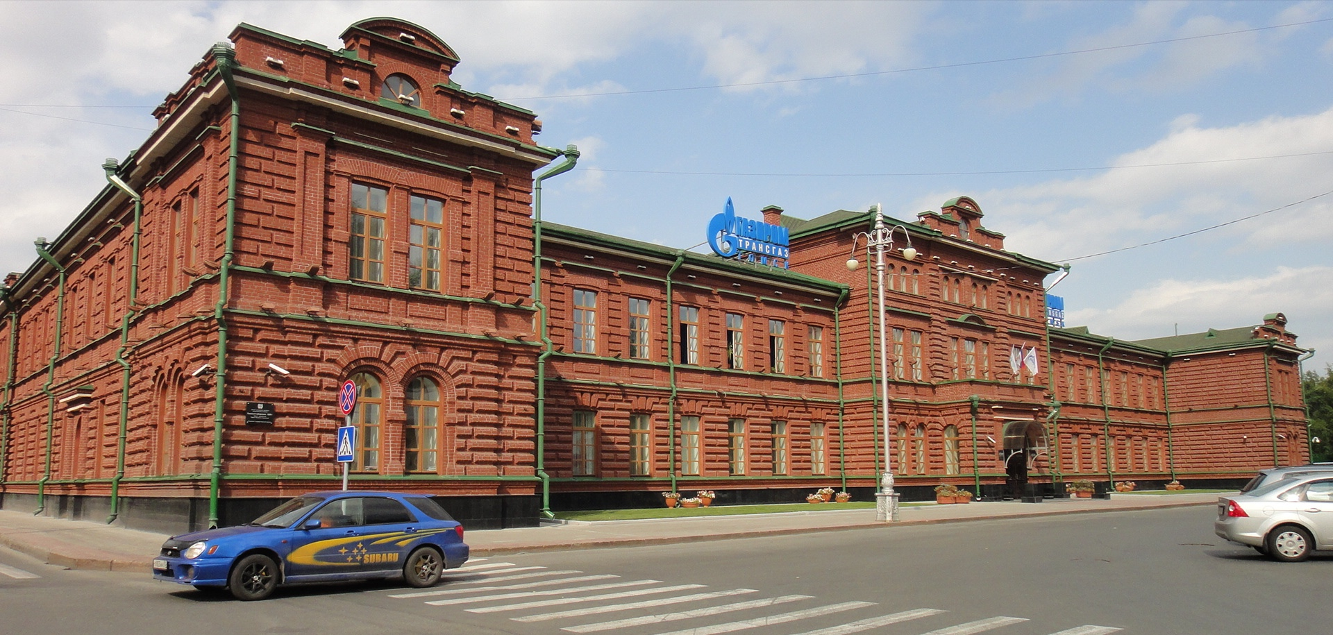 Former Governorate Men's Gymnasium in Tomsk, now one of Gazprom's daughter companies, Prospekt Frunze, 9.